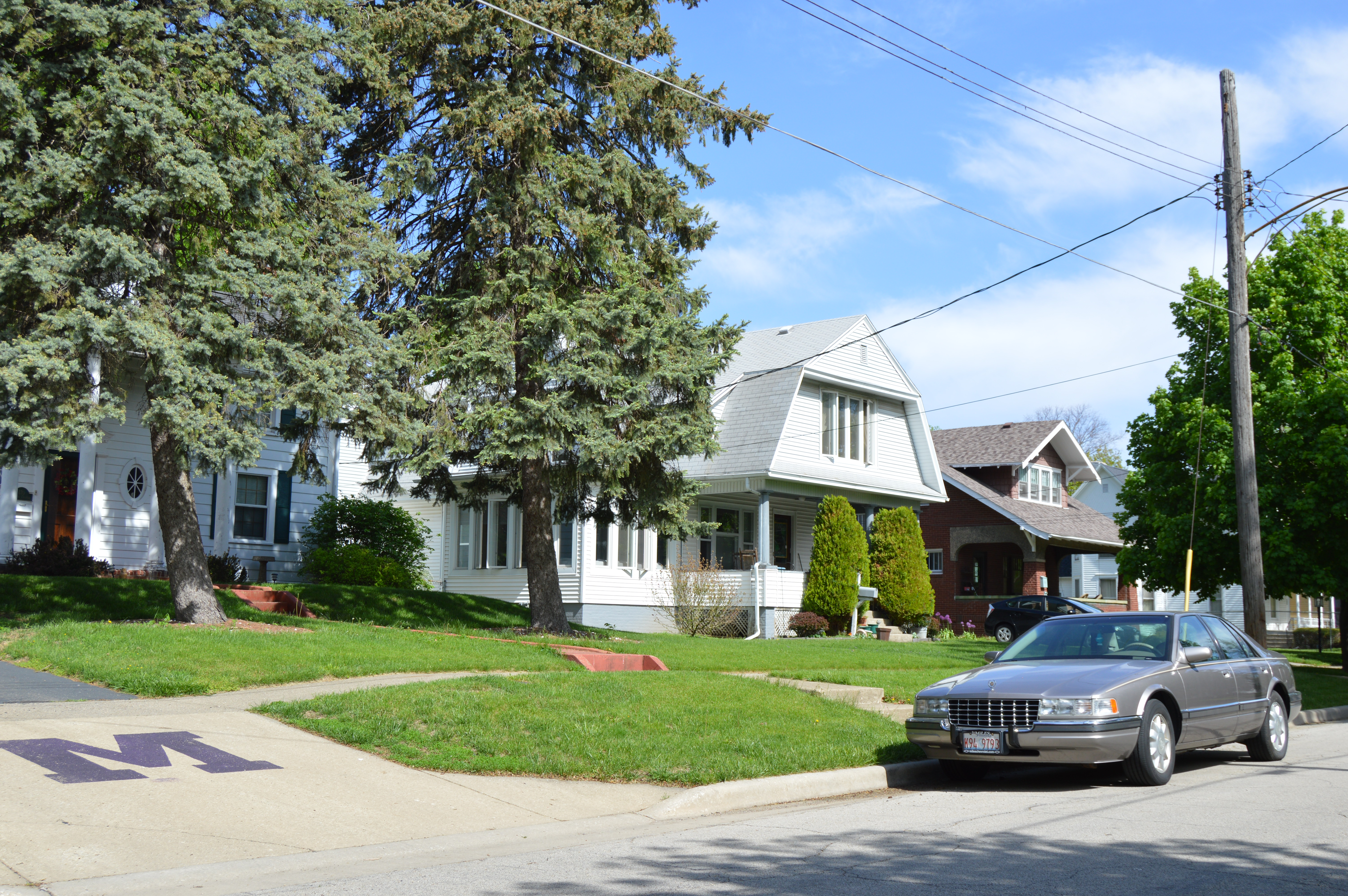 Houses on the western side of the 400 block of S. Charter Street in Monticello, Illinois, United States. This block is part of the South Charter Street Historic District, a historic district that is listed on the National Register of Historic Places.